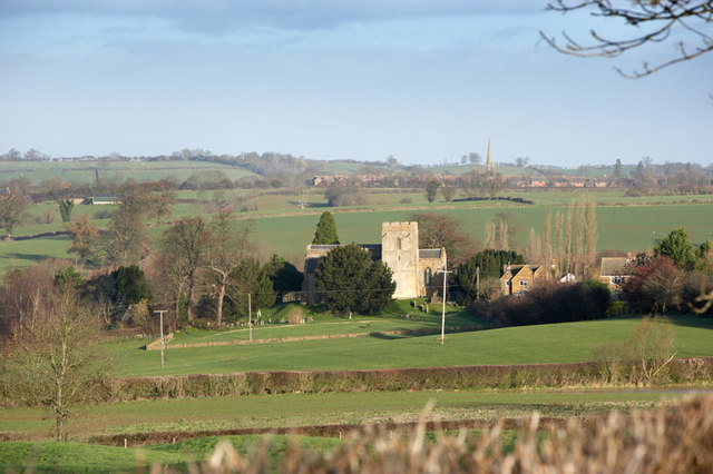 Barford St Michael parish church viewed from the Nether Worton Road, with the village of Bloxham and the spire of St Mary's parish church in the distance.